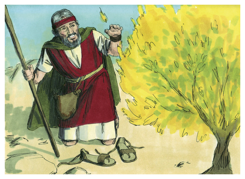 Biblical illustration of Book of Exodus Chapter 4